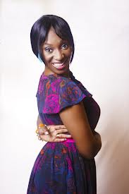 picture